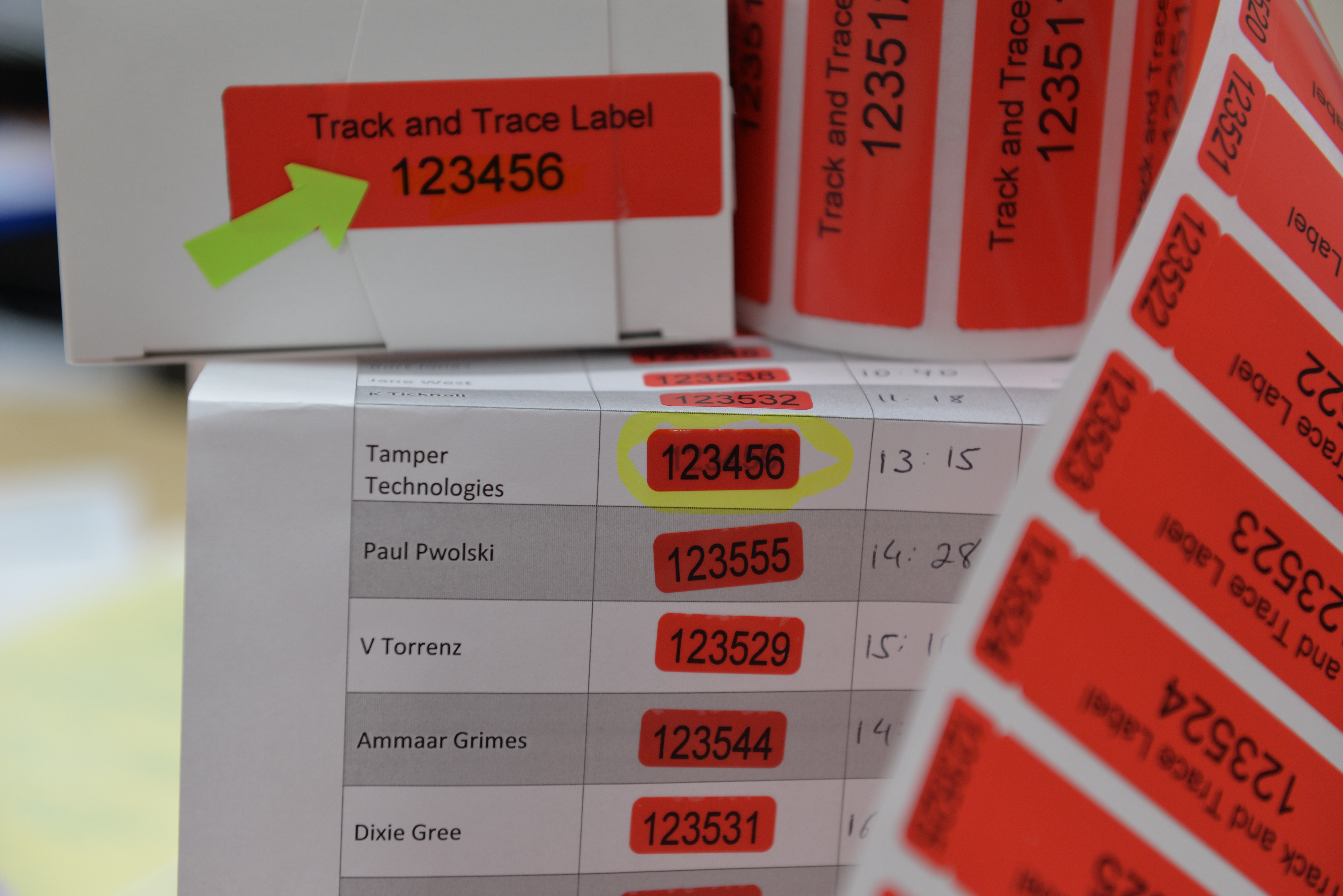 This permanent, tamper evident label provides an additional layer of security instantly showing clear visual evidence if it has been tampered with. The dual number tab can be used to ensure accurate data capture for the tracking and tracing of gods. tamper evident labelling can protect the customer from counterfeit goods, contaminated products and can defend the reputation of businesses too.